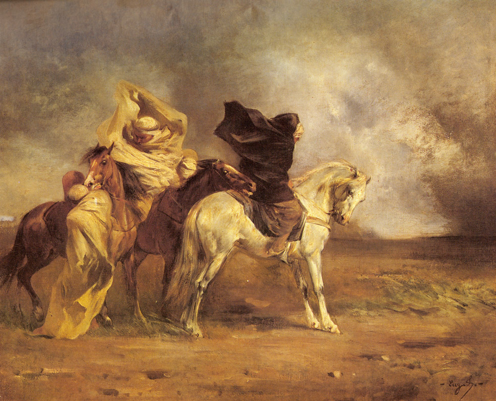 Eugene Fromentin's art